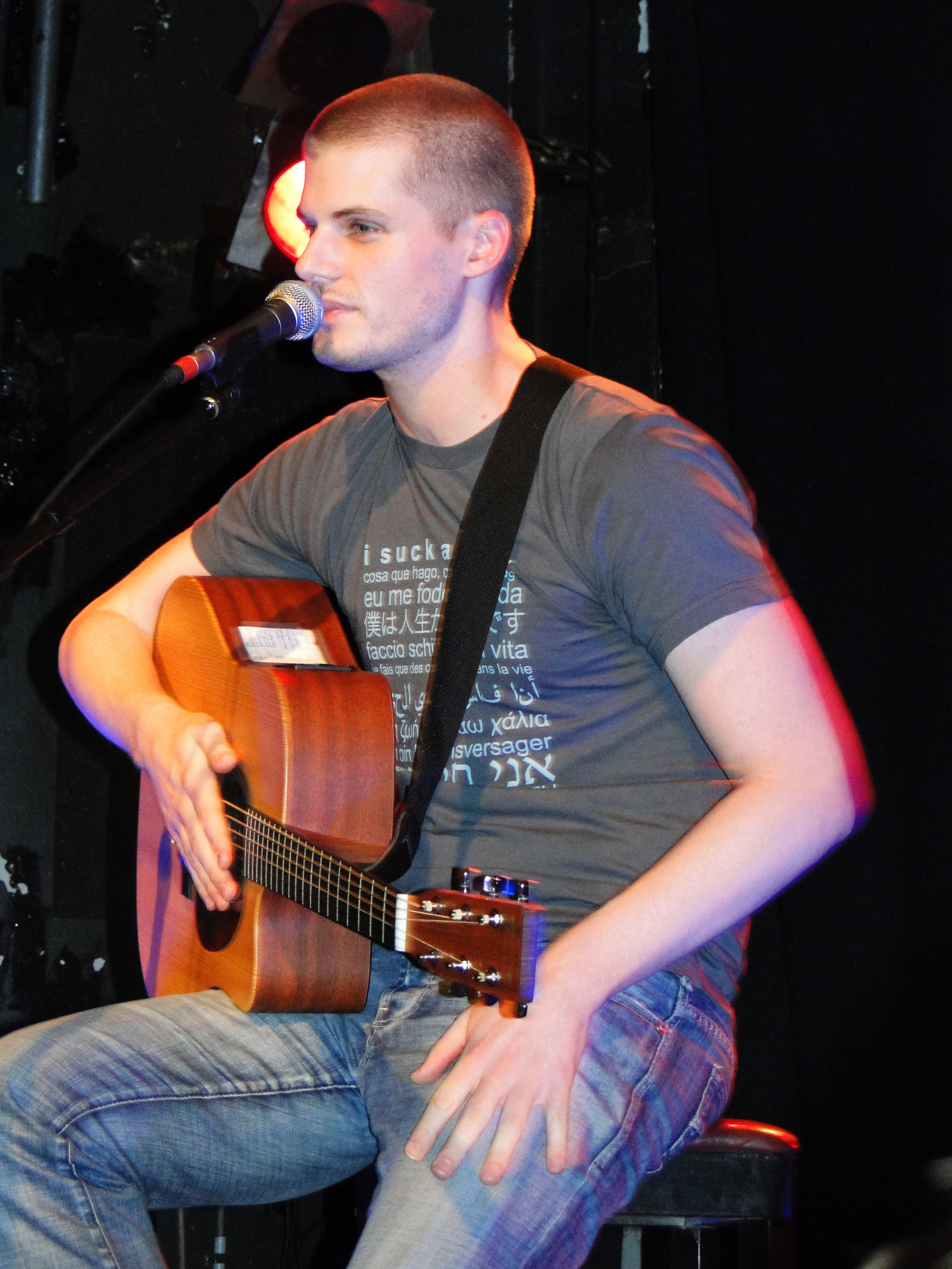 Jay Brannan performs at Hamburg, Knust